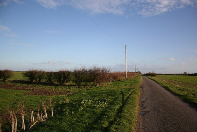 Swaton Fen North Drove Looking east